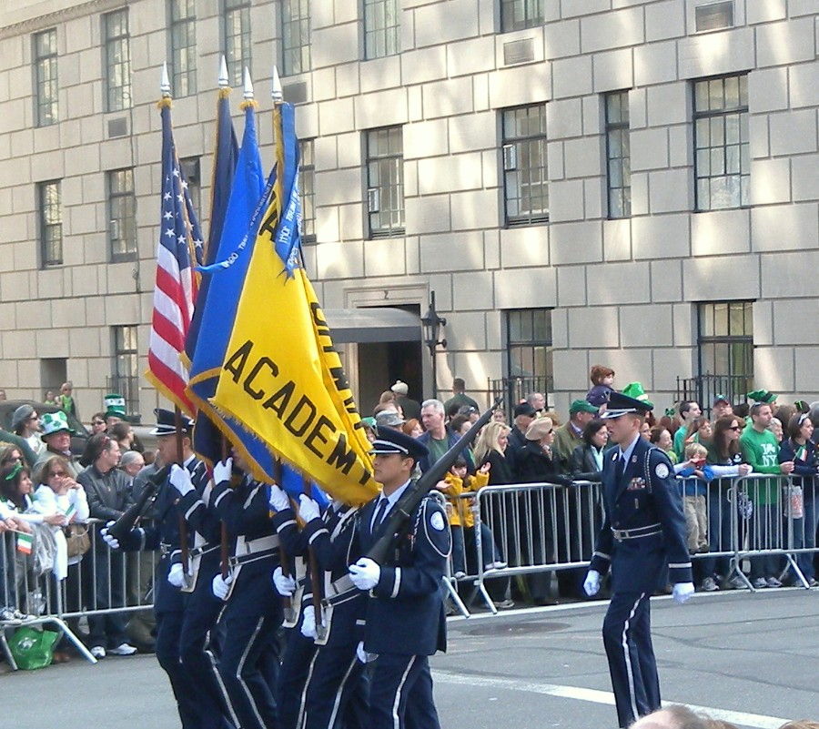 Looking south at 67th Street at Randolph-Macon Academy's color guard.